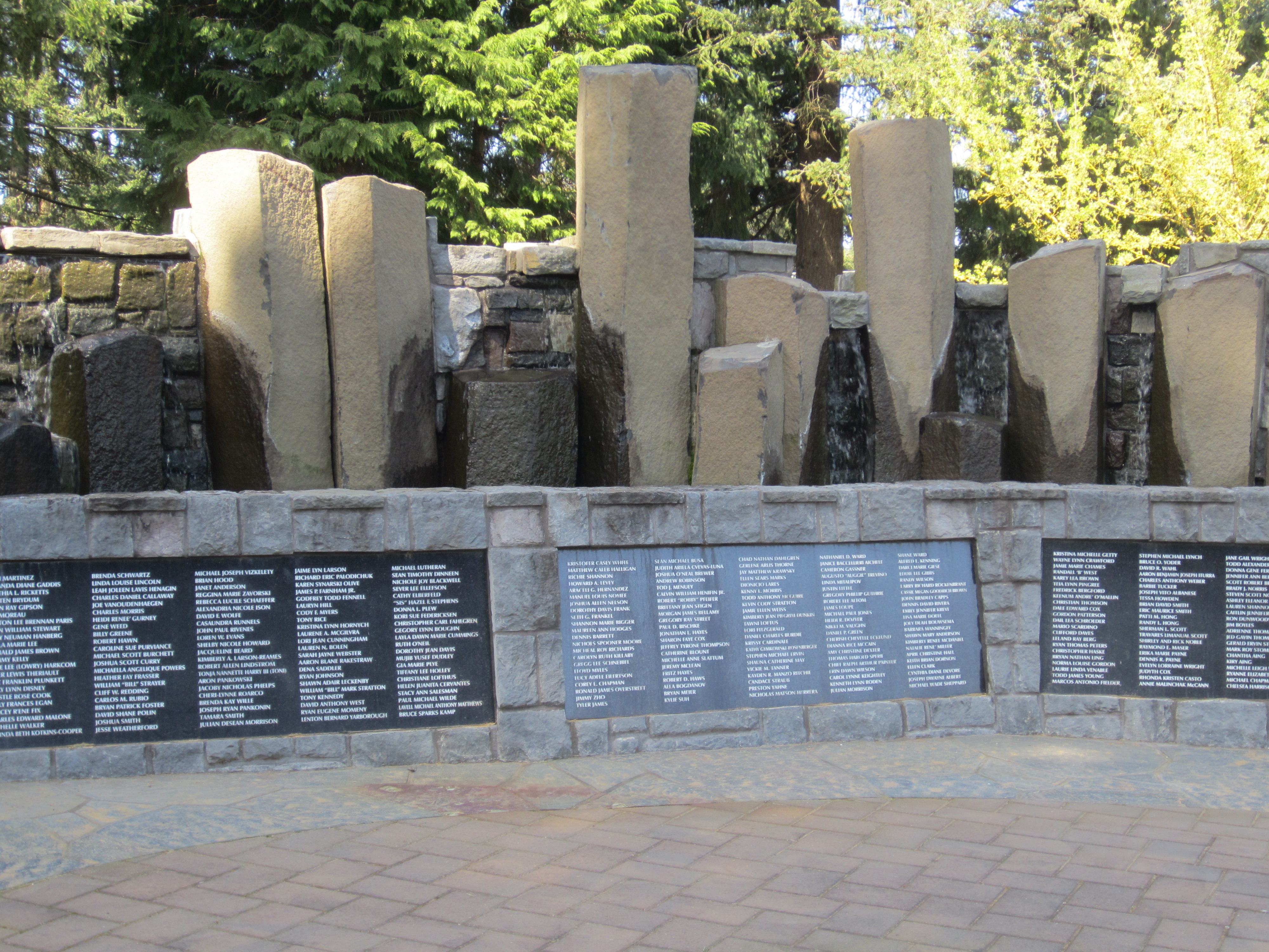 Oregon City, Oregon (April 2018)